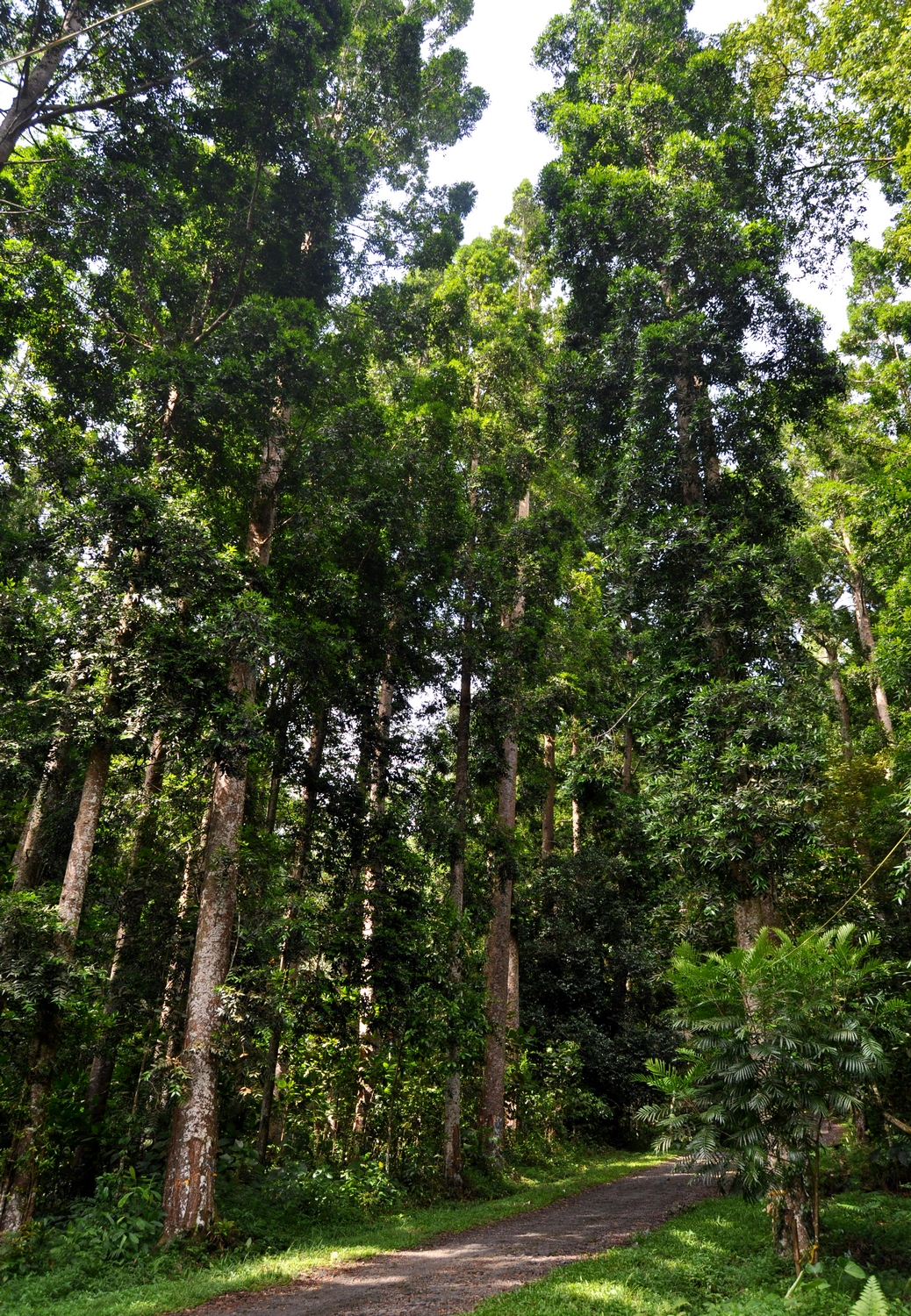 Damar (Agathis dammara) forest stand in Sukabumi, West Java.